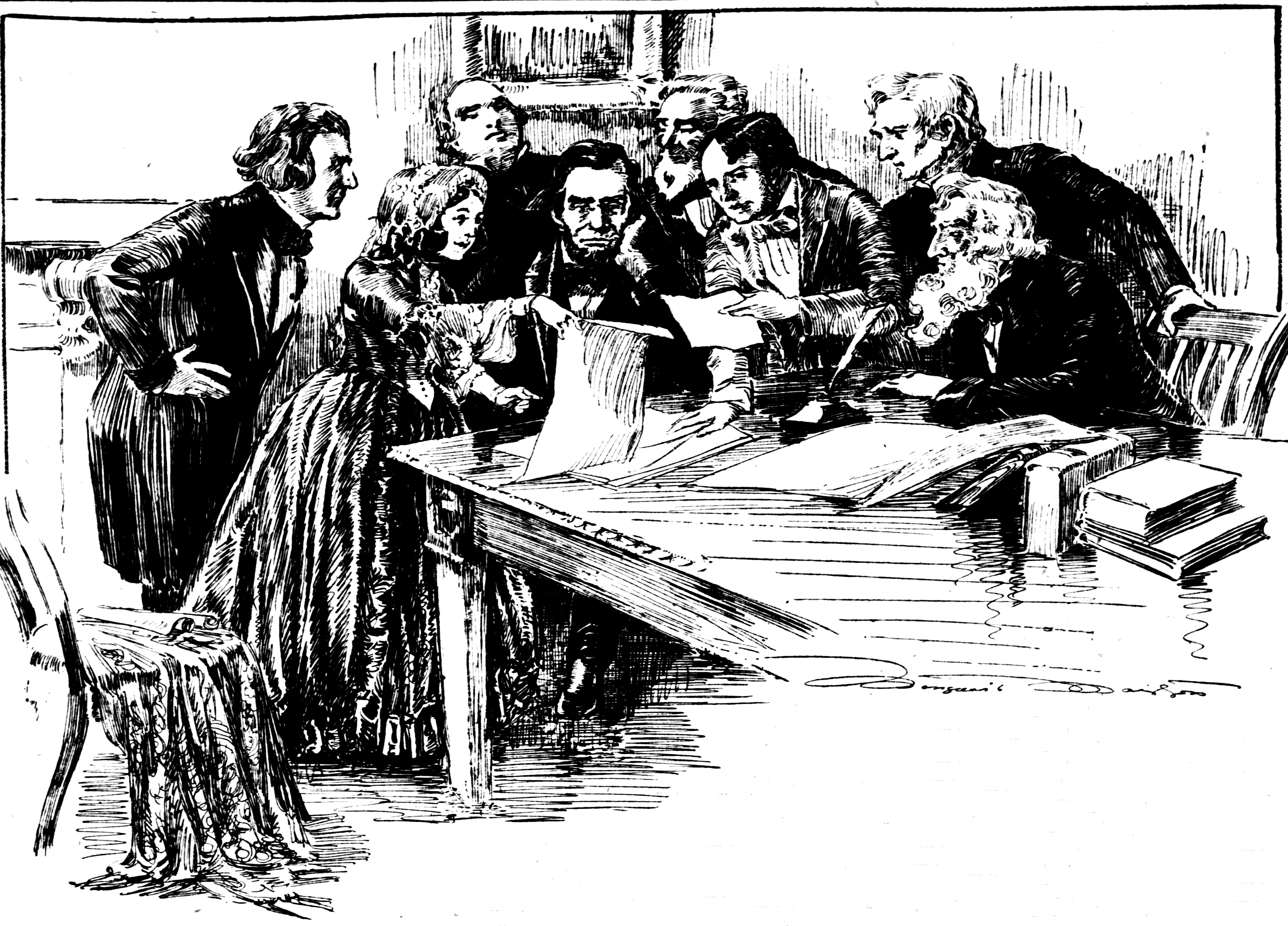 Imaginative drawing by Marguerite Martyn of Anna Ella Carroll and the Lincoln cabinet looking over the war plans that she is presenting.